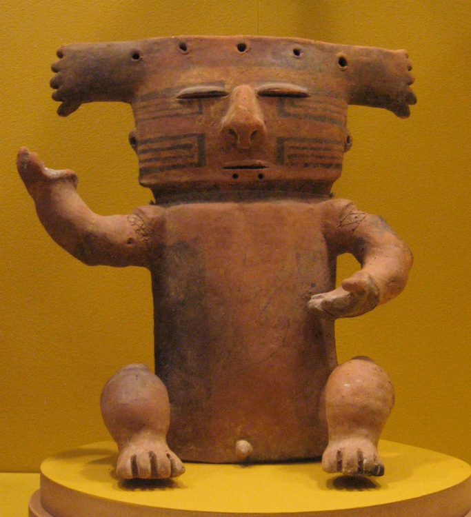 Colombia, Middle Cauca, Caldas Complex Seated Male Figure with Headdress, 1000-1400 Ceramic, Black on red resist painted ceramic, Height: 10 3/4 in. (27.31 cm); Width: 9 3/4 in. (24.77 cm); Depth: 5 1/16 in. (12.86 cm) (M.2007.146.5 Wikipedia Loves Art at the Los Angeles County Museum of Art This photo of item # M.2007.146.5 at the Los Angeles County Museum of Art was contributed under the team name "artifacts" as part of the Wikipedia Loves Art project in February 2009. Los Angeles County Museum of Art The original photograph on Flickr was taken by Beesnest McClain—please add a comment to the original Flickr page whenever a use has been made on Wikipedia or another project. Project galleries on Flickr: this institution, this team